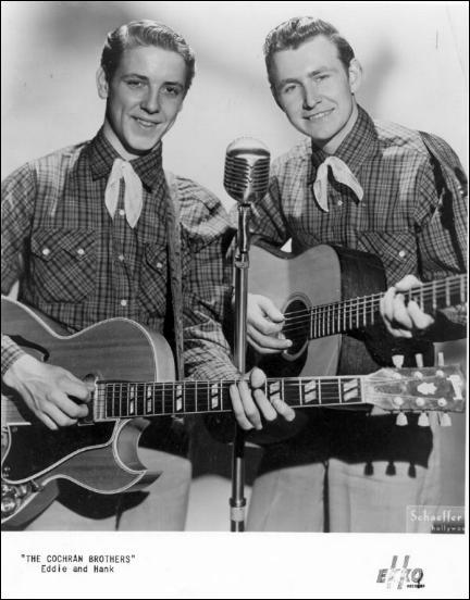 Publicity portrait of the Cochran Brothers (Eddie and Hank) for Ekko Records.